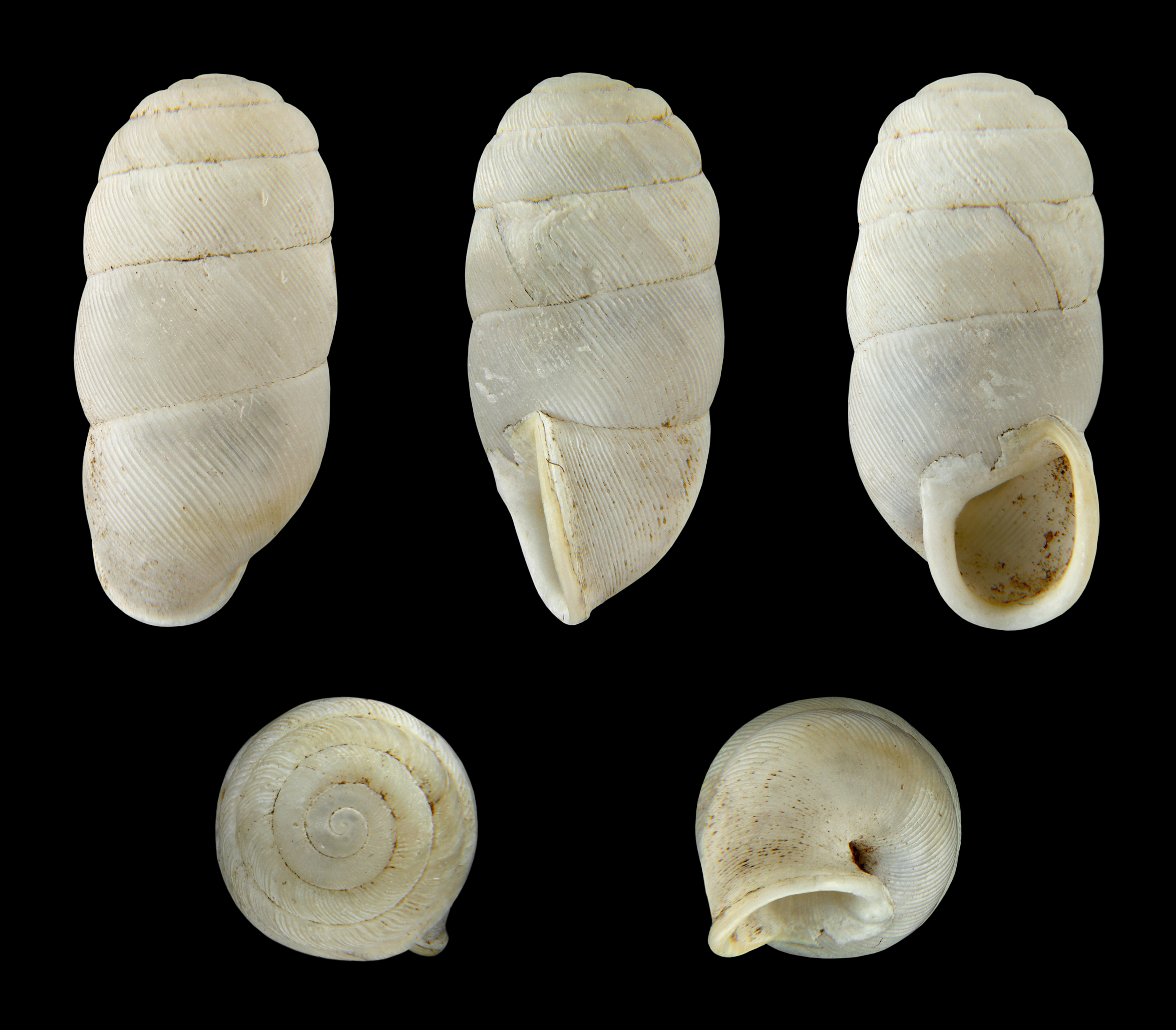 Length 1.3 cm; Originating from the Barranco de Guayadeque, Gran Canaria, Canary Islands, Spain, 27°56′0.49″N 15°28′13.14″W / 27.9334694°N 15.4703167°W; Shell of own collection, therefore not geocoded. Dorsal, lateral (right side), ventral, back, and front view.